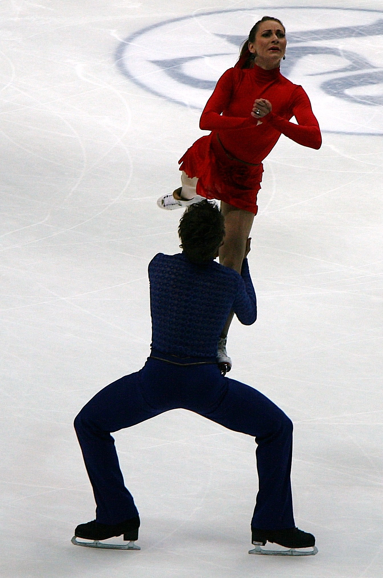 Vanessa Crone and Paul Poirier at the 2011 World Figure Skating Championships